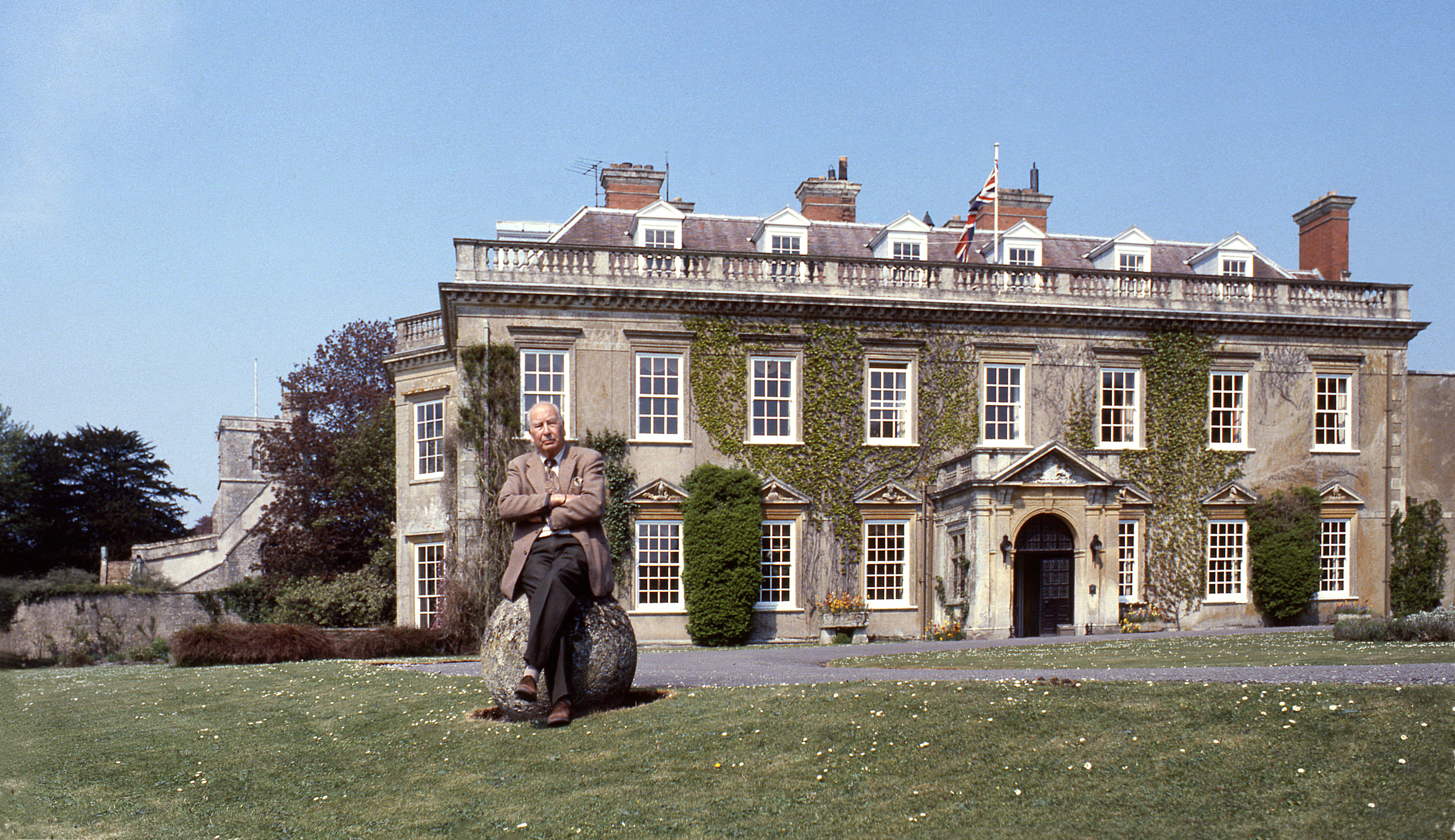 Percy Seymour the 18th Duke of Somerset taken outside Bradley House, Maiden Bradley, Somerset.